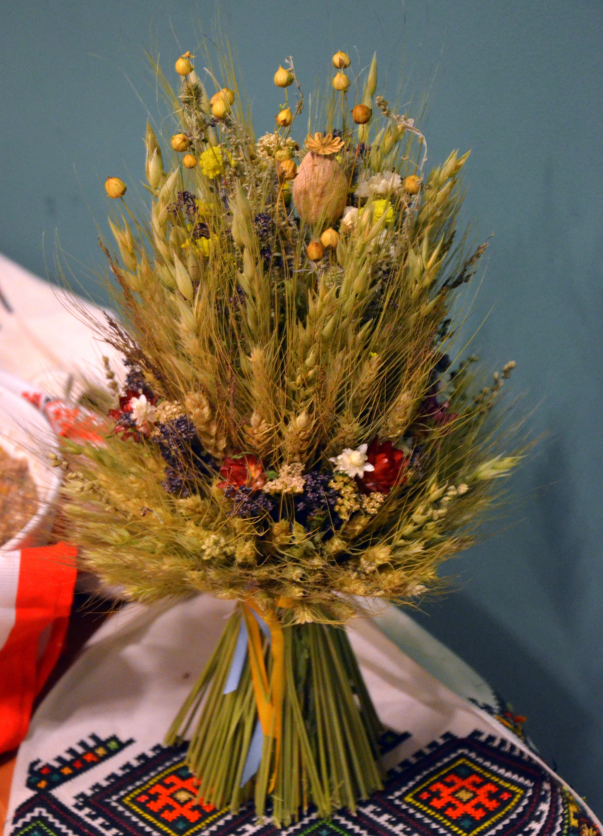 Orthodox Christmas in Poland - Didukh